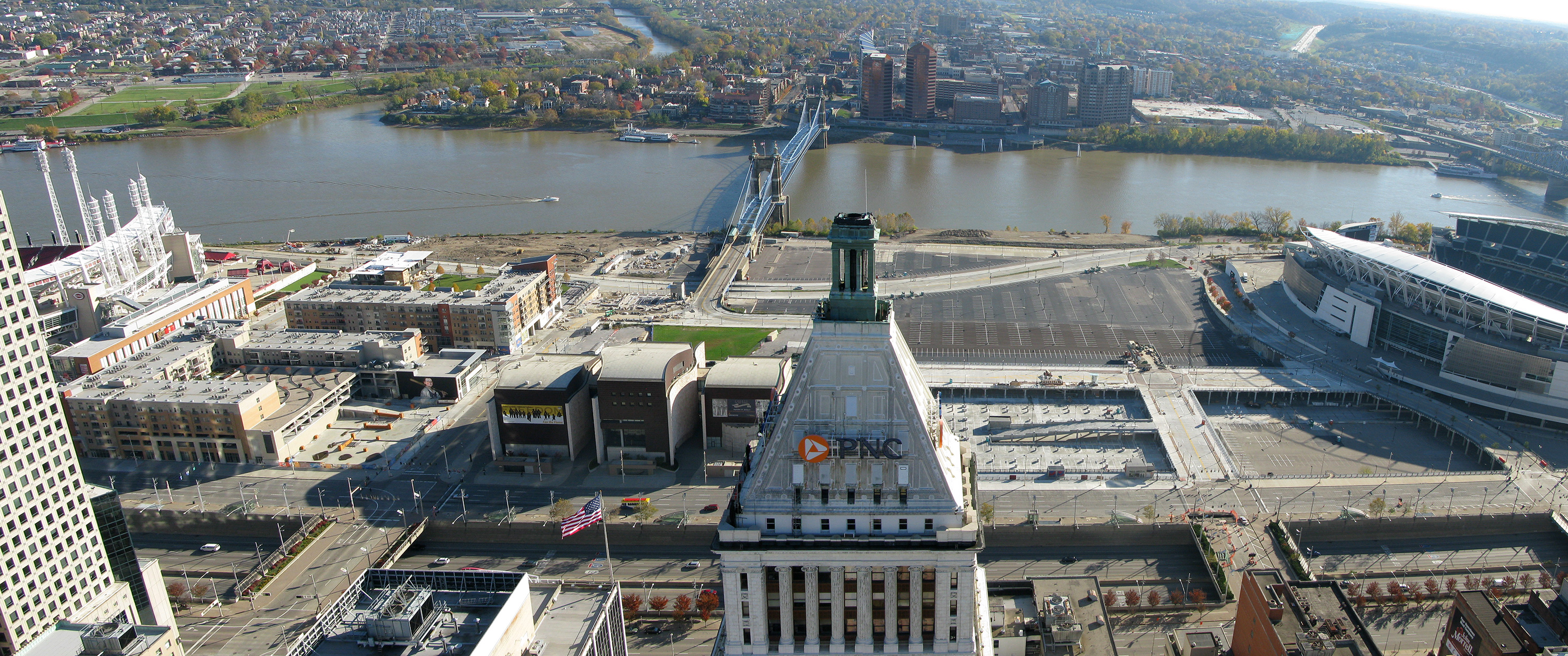 The site of The Banks project in Cincinnati, Ohio on November 6, 2011.